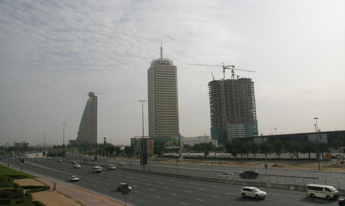 This is a photo showing Etisalat Tower 2 (on the left), Dubai World Trade Centre (in the center), and Dubai World Trade Centre Residence (on the right) on 2 March 2007. These three buildings are situated alongside Sheikh Zayed Road in Dubai, United Arab Emirates.